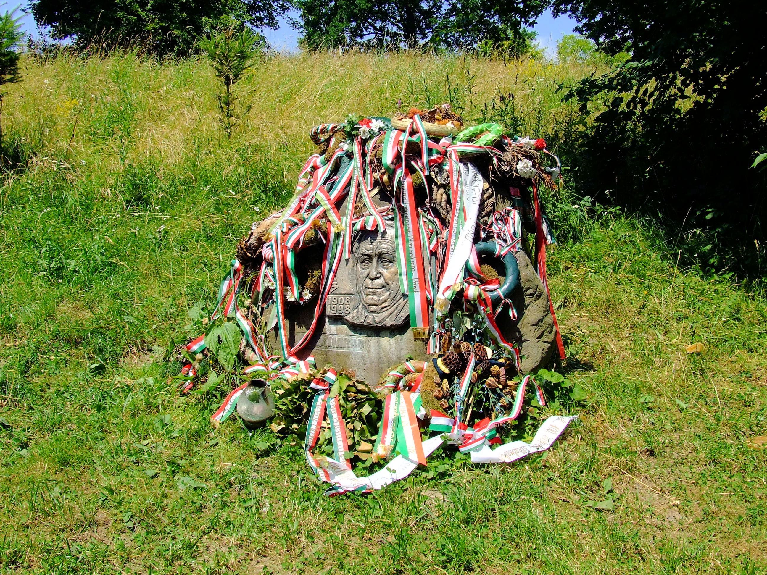 Grave of Albert Wass in Brâncoveneşti (Marosvécs)